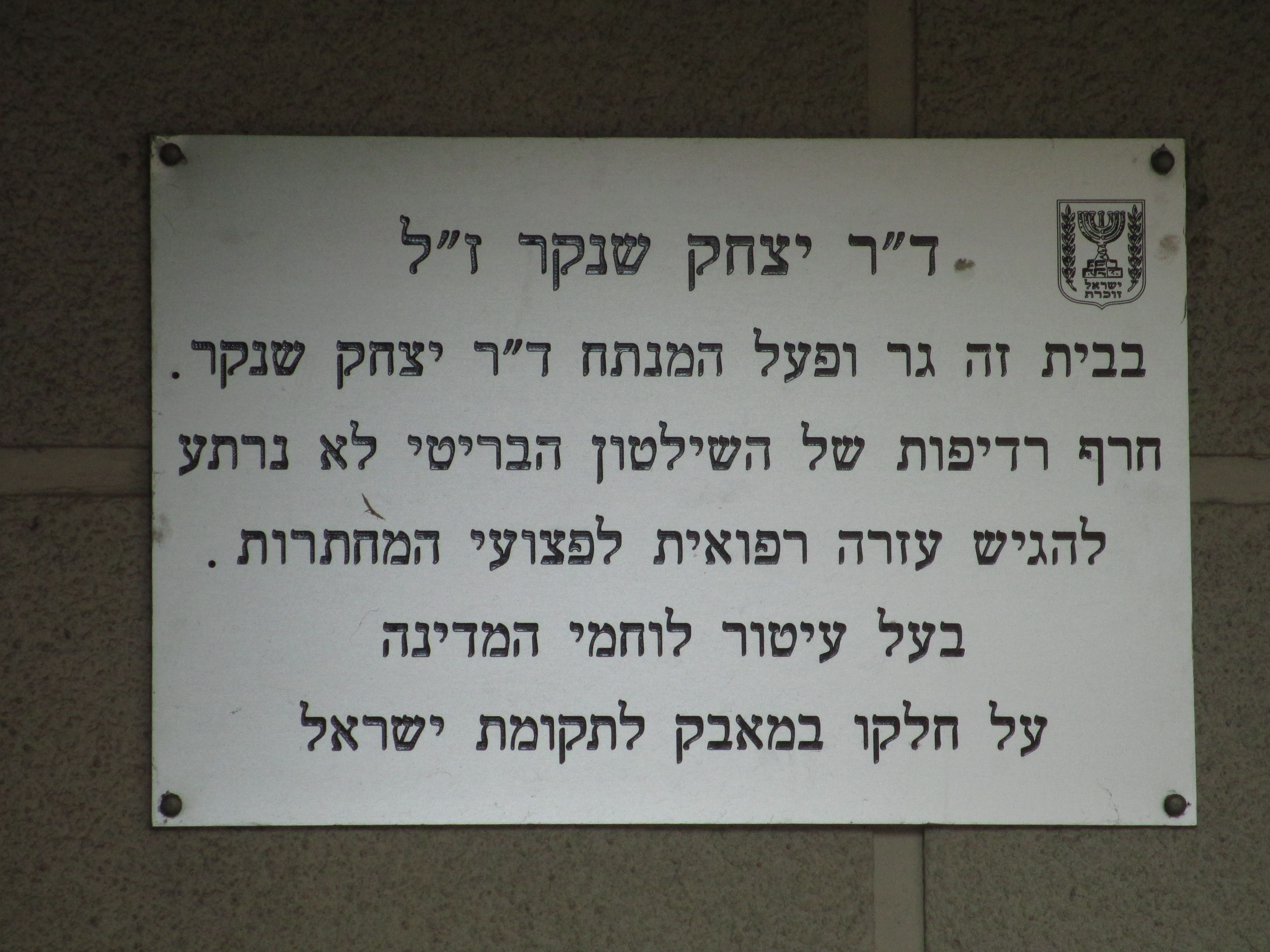 Memorial plaque on Dr. Itzhak Shenkar house in Tel Aviv לוחית זיכרון על ביתו של ד"ר יצחק שנקר ברח' רופין 13 בתל אביב